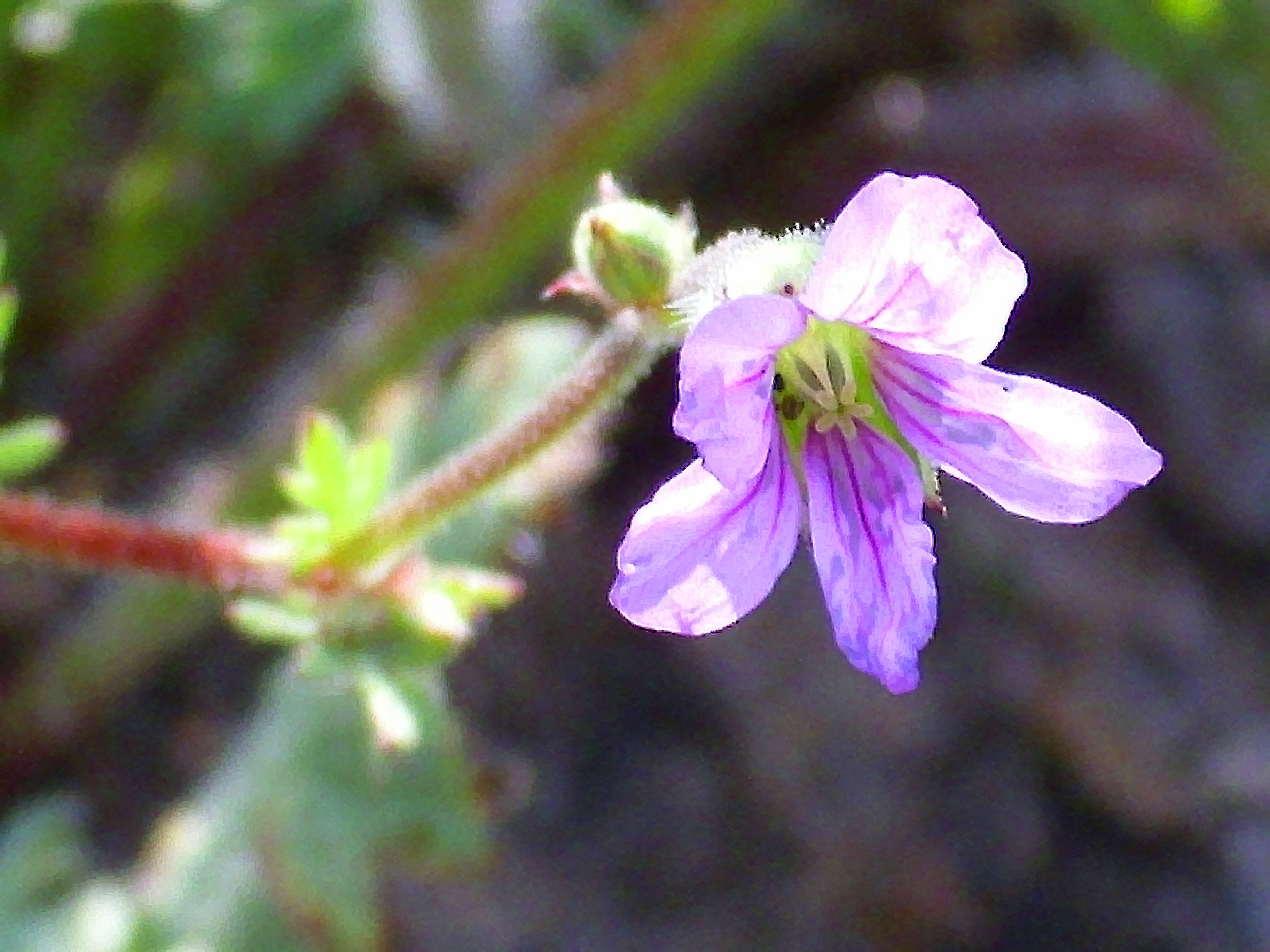 Erodium ciconium flower close up, Sierra Madrona, Spain